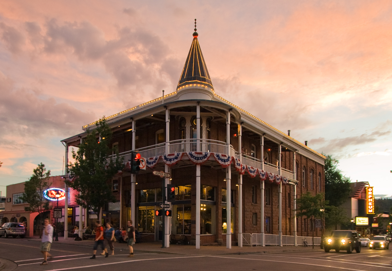 The Weatherford Hotel is a historic hotel in the downtown district of Flagstaff, Arizona. The hotel was established in 1897 by John W. Weatherford, and is located one block from Route 66. Arizona, USA.